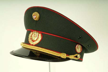 This image is in the public domain according to Austrian copyright law because it is part of a law, ordinance or official decree issued by an Austrian federal or state authority, or because it is of predominantly official use. (§7 UrhG) To uploader: Please provide where the image was first published and who created it. Bundespolizei – Tellerkappe, grün